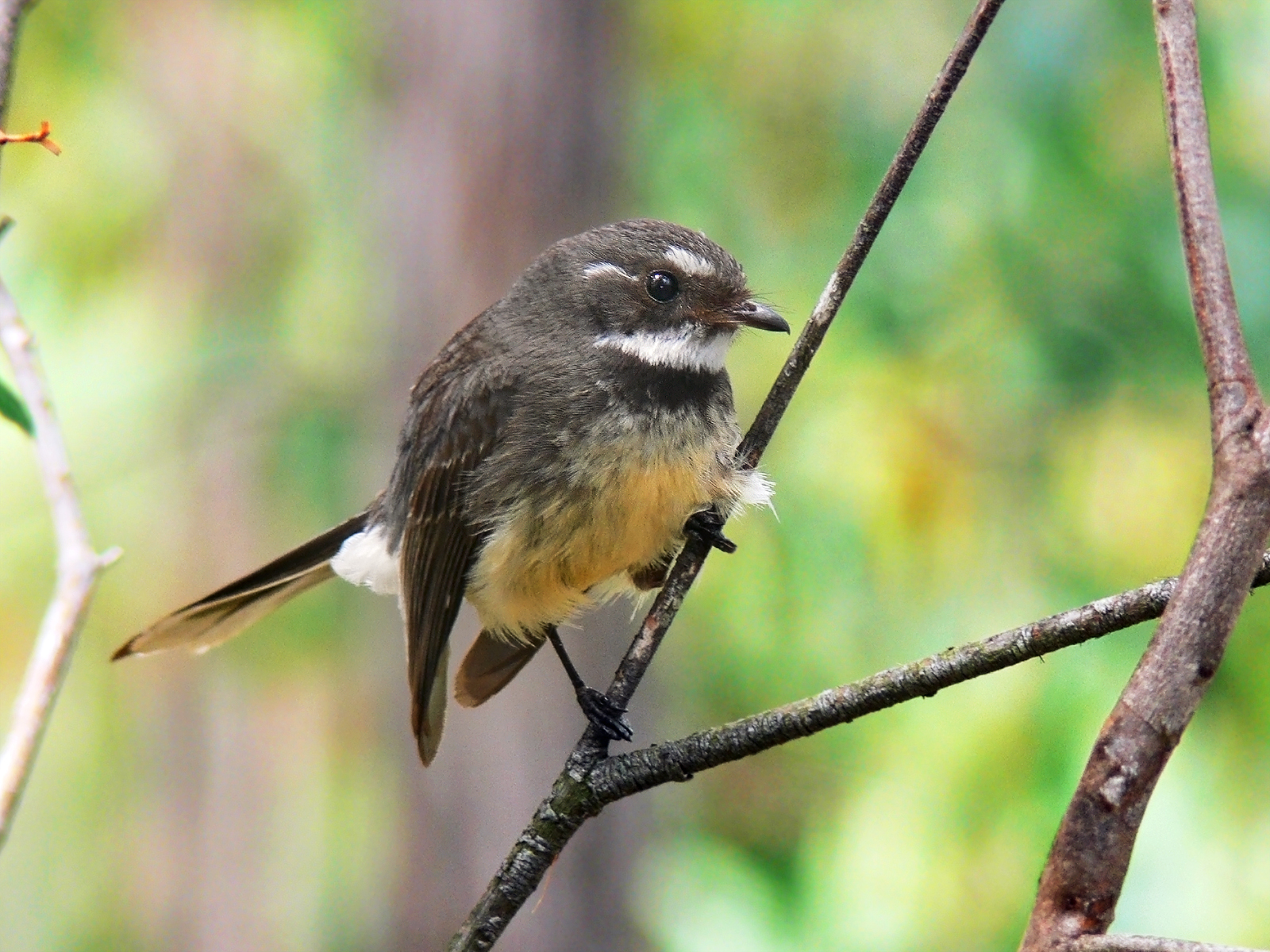 A Grey fantail